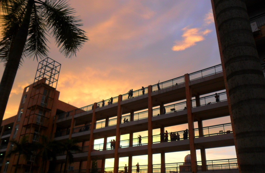 beautiful sunset and teaching building of Guangdong Jiangmen NO.1 Middle School